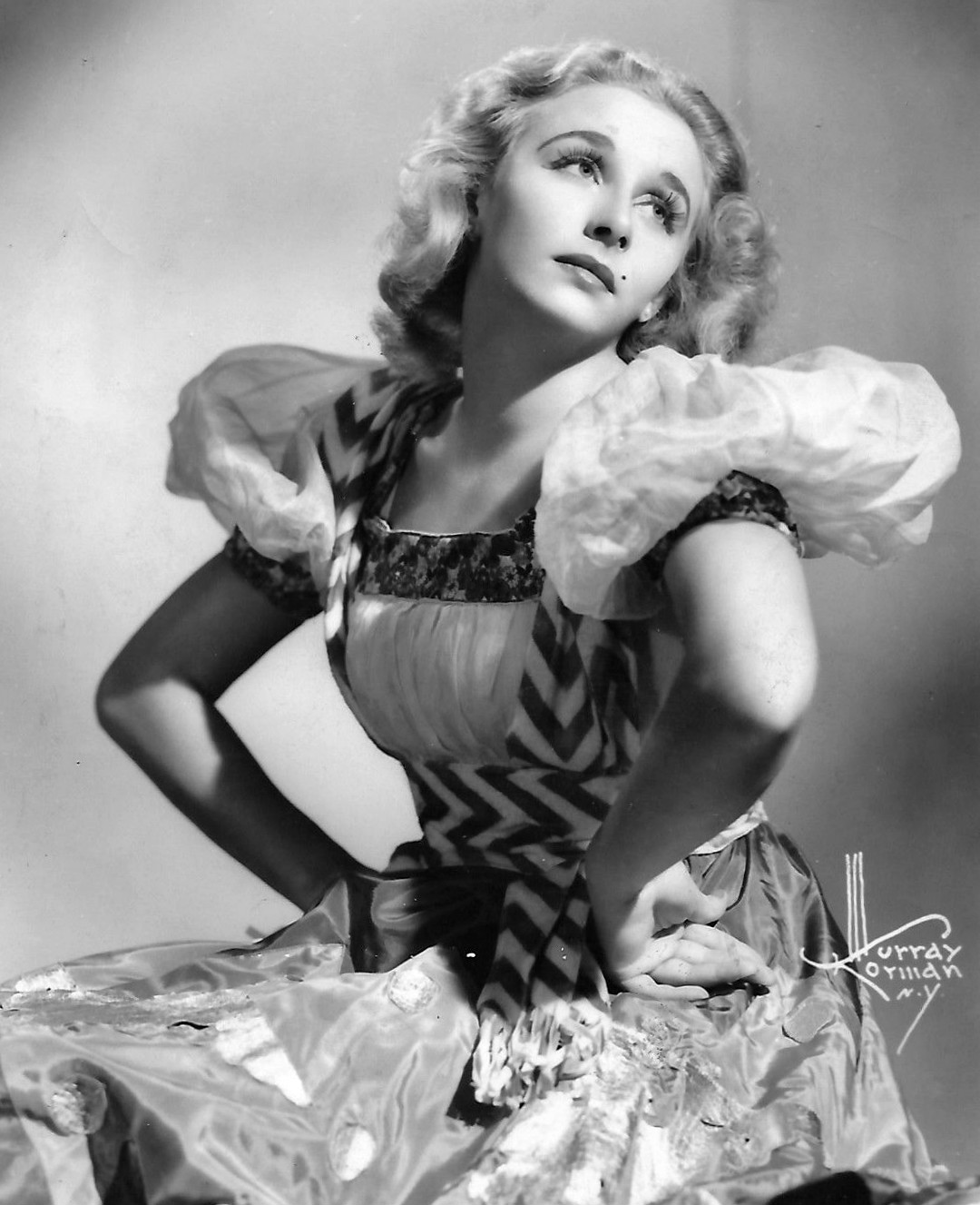 Photo of Vera Hruba Ralson as a member of Ice Capades, 1942.